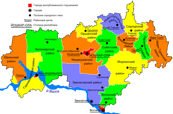 Political map of Mari El